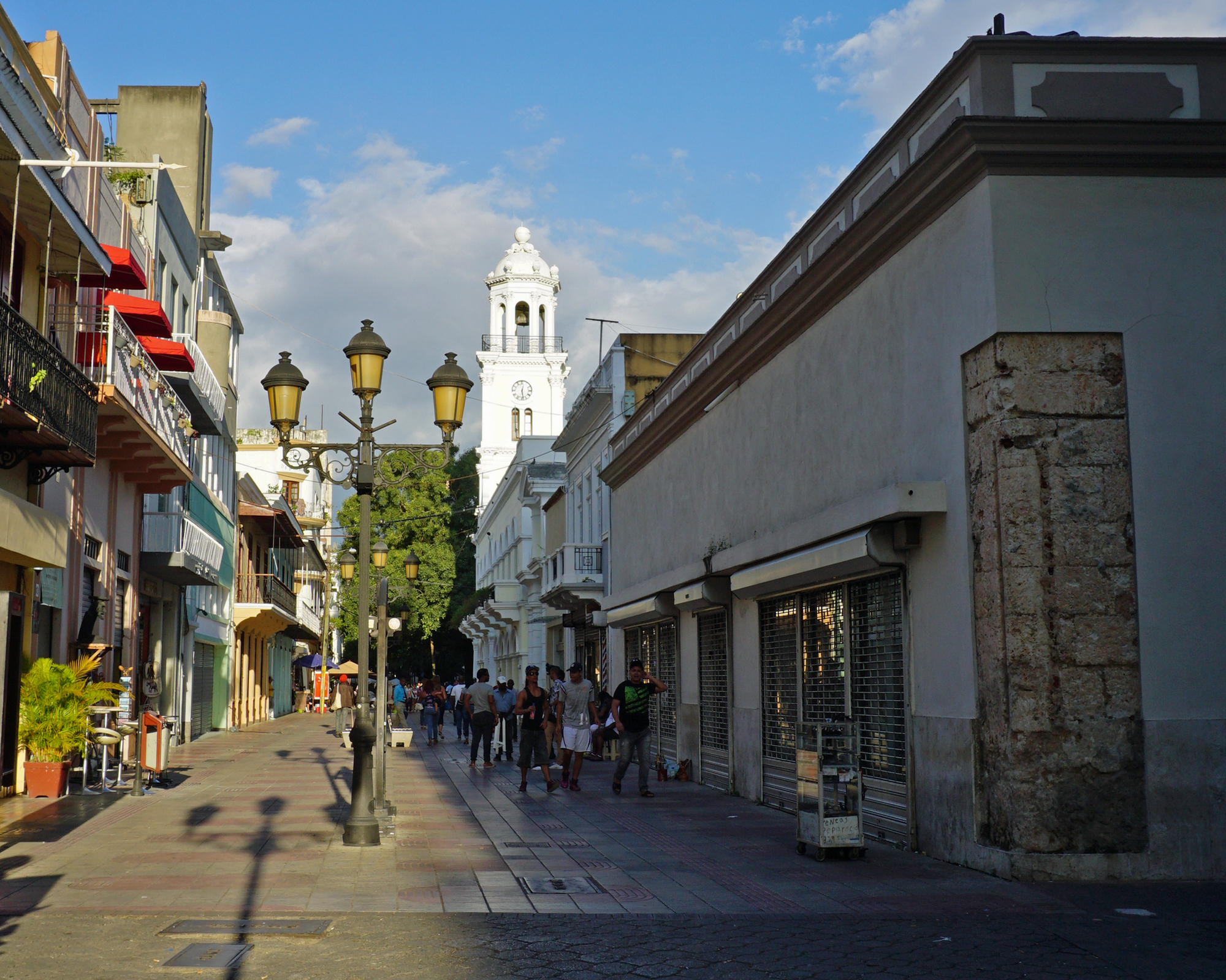 El Conde street, Consistorial Palace in the background. Santo Domingo's Colonial City, Dominican Republic.